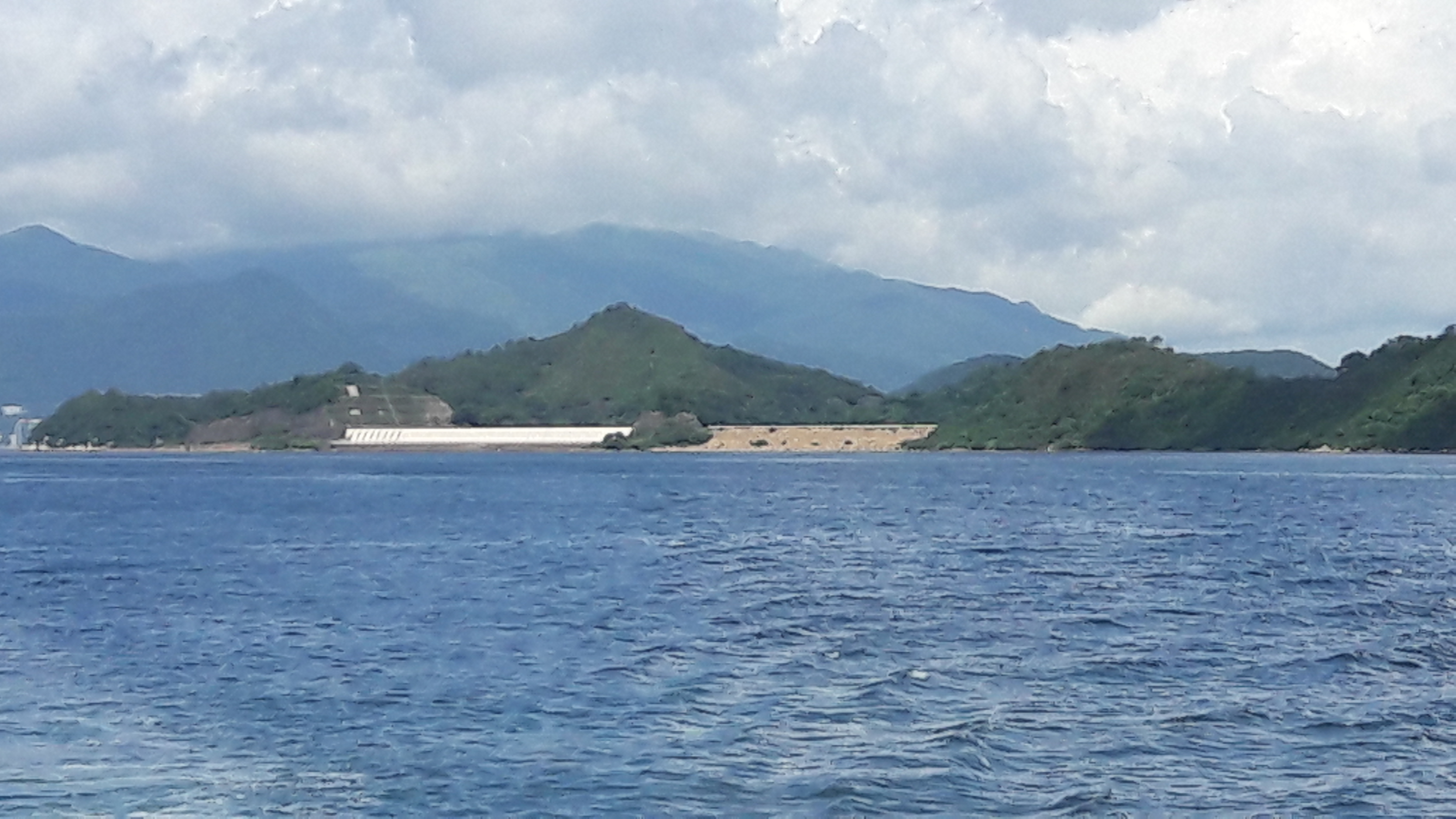 Service Dam for Plover Cove Reservoir 中文（香港）: 船灣淡水湖副壩。攝於船上。